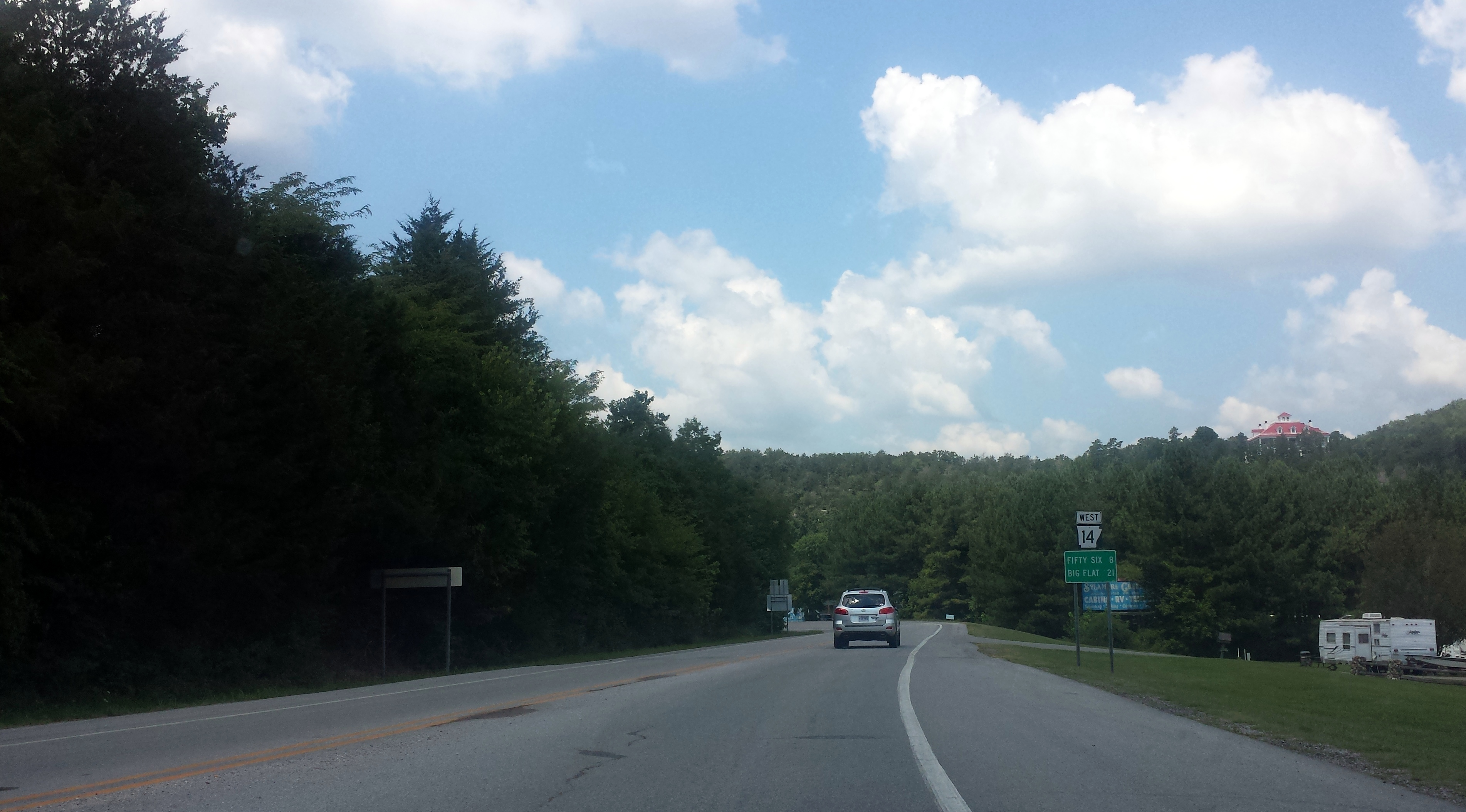 Arkansas Highway 14 runs toward Blanchard Springs Caverns